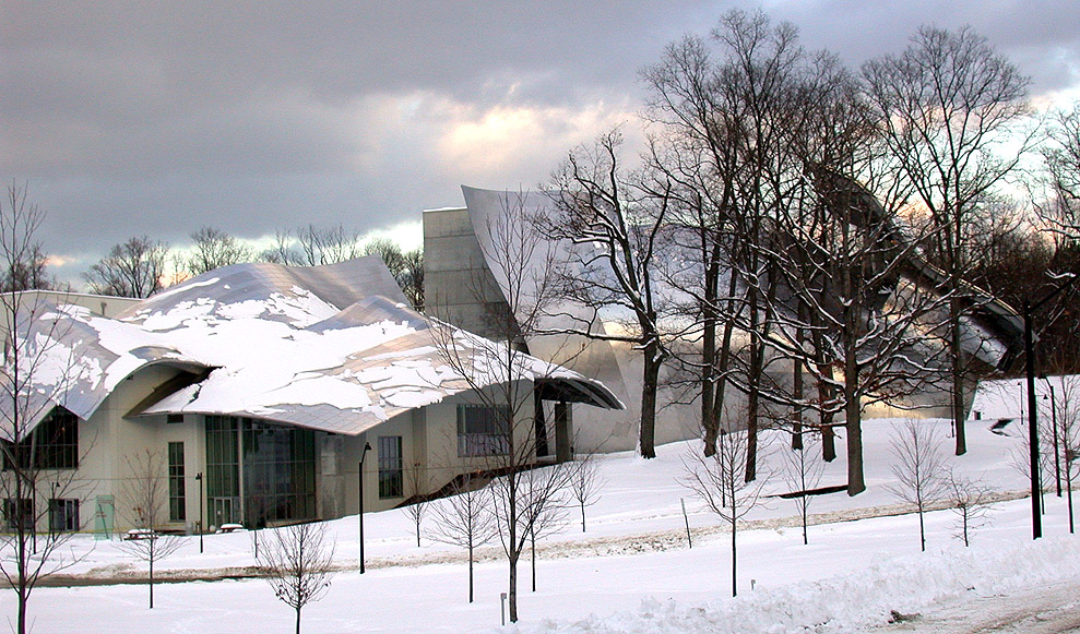 The Richard B. Fisher Center for the Performing Arts, Bard College. View from the southwest.